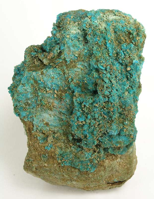 Arseniosiderite, Boothite Locality: Copper Basin District, Lander County, Nevada, USA (Locality at ) Size: small cabinet, 8.8 x 6.1 x 4.3 cm Boothite with Arseniosiderite According to MINDAT, "This mineral, fully hydrated copper sulphate, is very rare." This is a large specimen smothered in crystallized boothite, composed of stacks and sprays of agglomerated microcrystals. Acquired by John White in 1969. Ex. John White Collection.